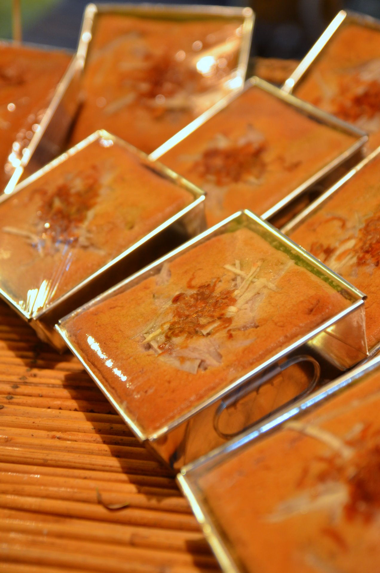 Khanom mo kaeng (Thai: ขนมหม้อแกง) is a sweet baked pudding containing coconut milk, eggs, palm sugar and flour. Sweet fried sliced onions are sprinkled on top. It is a dessert or sweet snack in Thai cuisine. Here they are sold at a fair in Uttaradit.